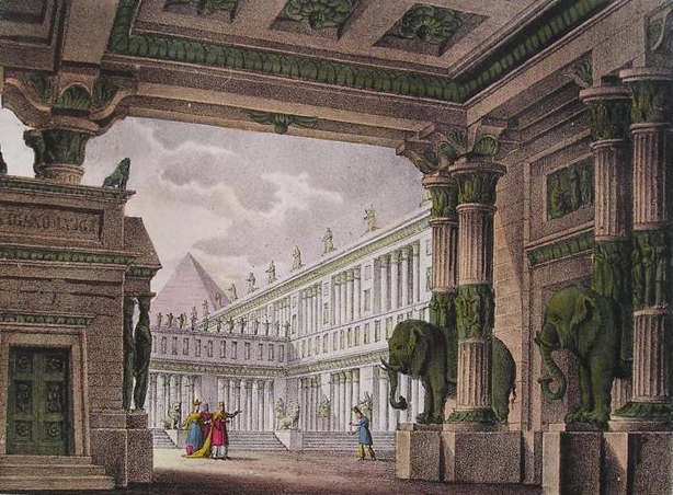 Gioachino Rossini - Semiramide - Alessandro Sanquirico - Milan 1824 - act 2, scene 8 - Parte remota attigua al mausoleo di Nino